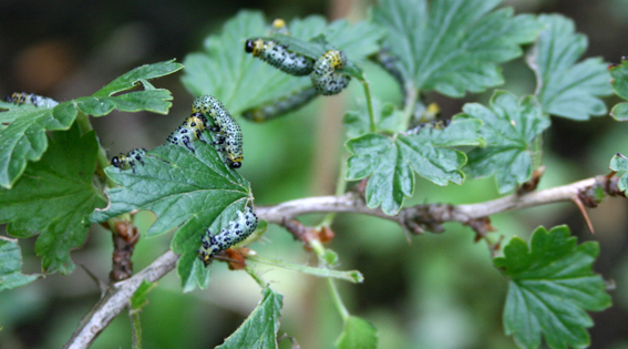 Larva of Nematus ribesii eating gooseberry leaves (Ribes uva-crispa)